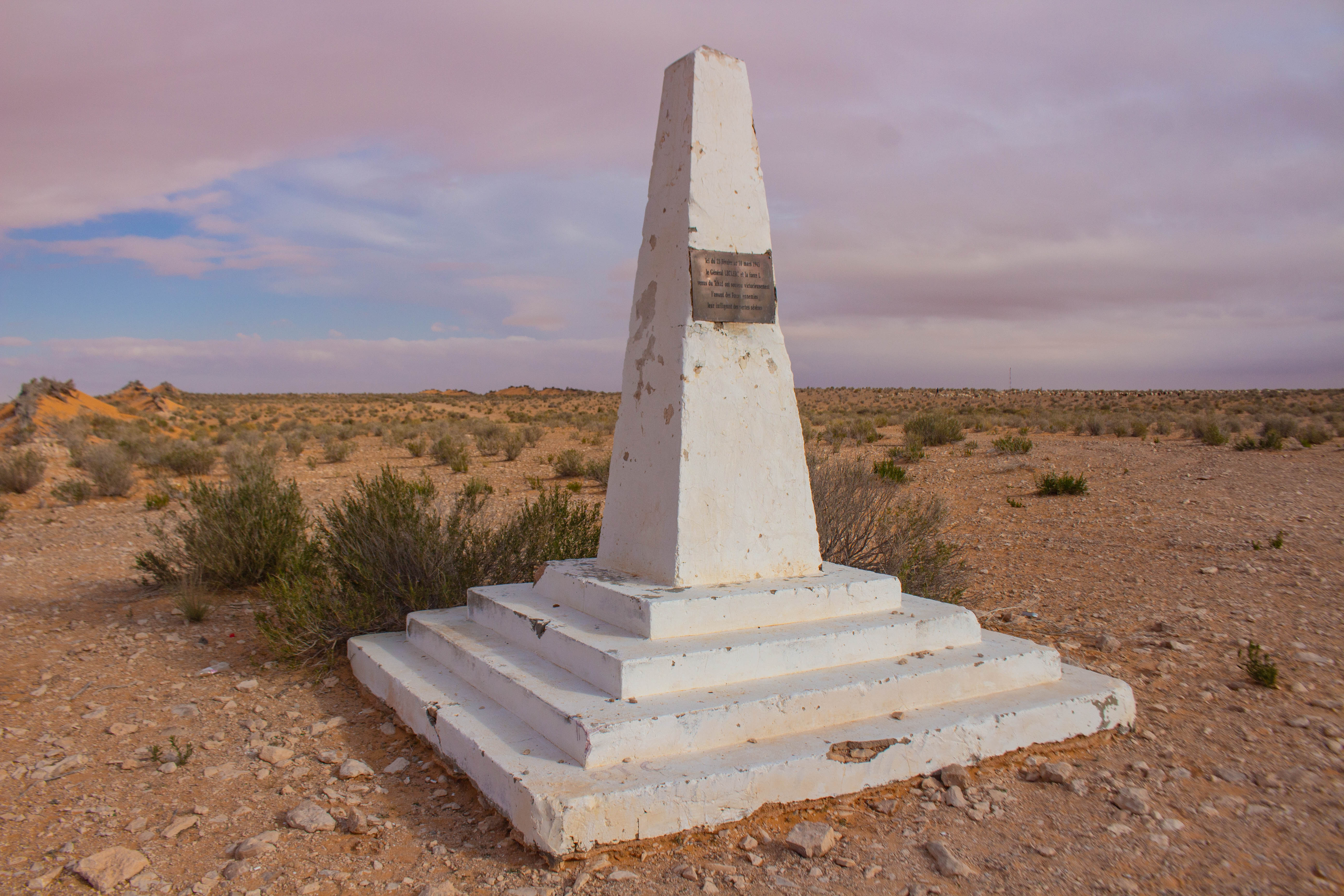 Stele of the column of General Leclerc at Ksar Ghilane